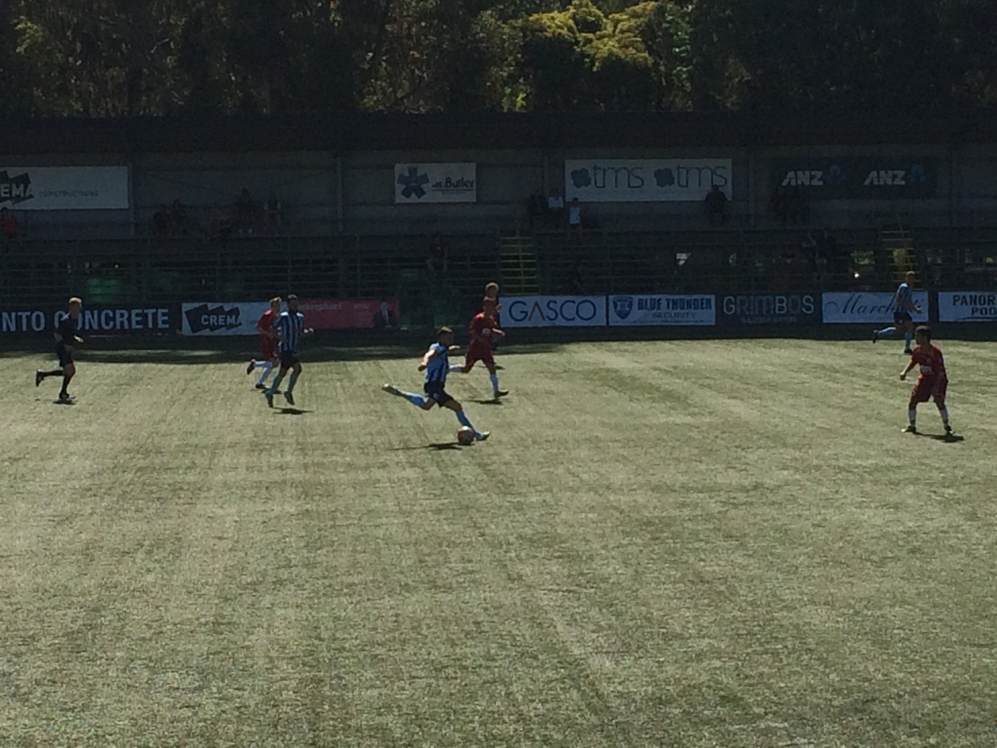 A Manningham United player takes a long shot in a pre-season friendly against Bulleen Lions